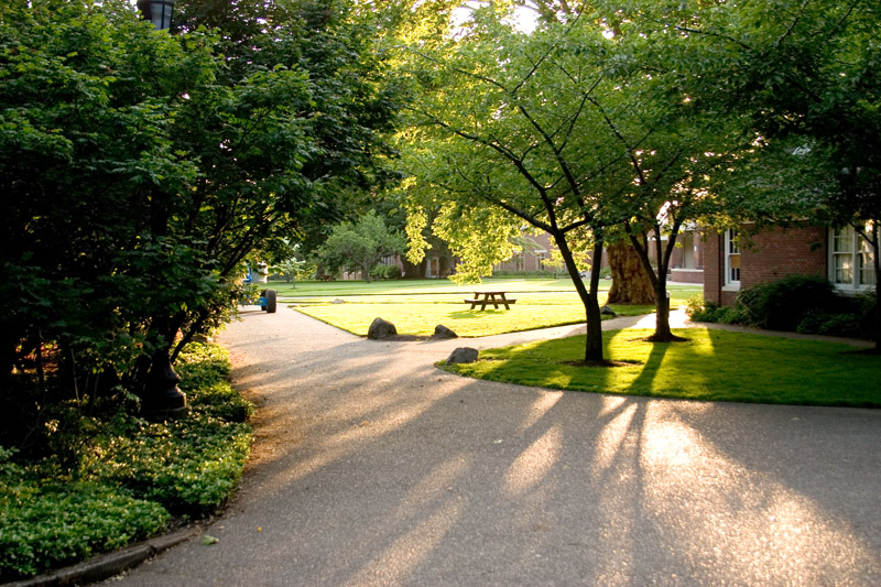 Kelvin Kay user:kkmd